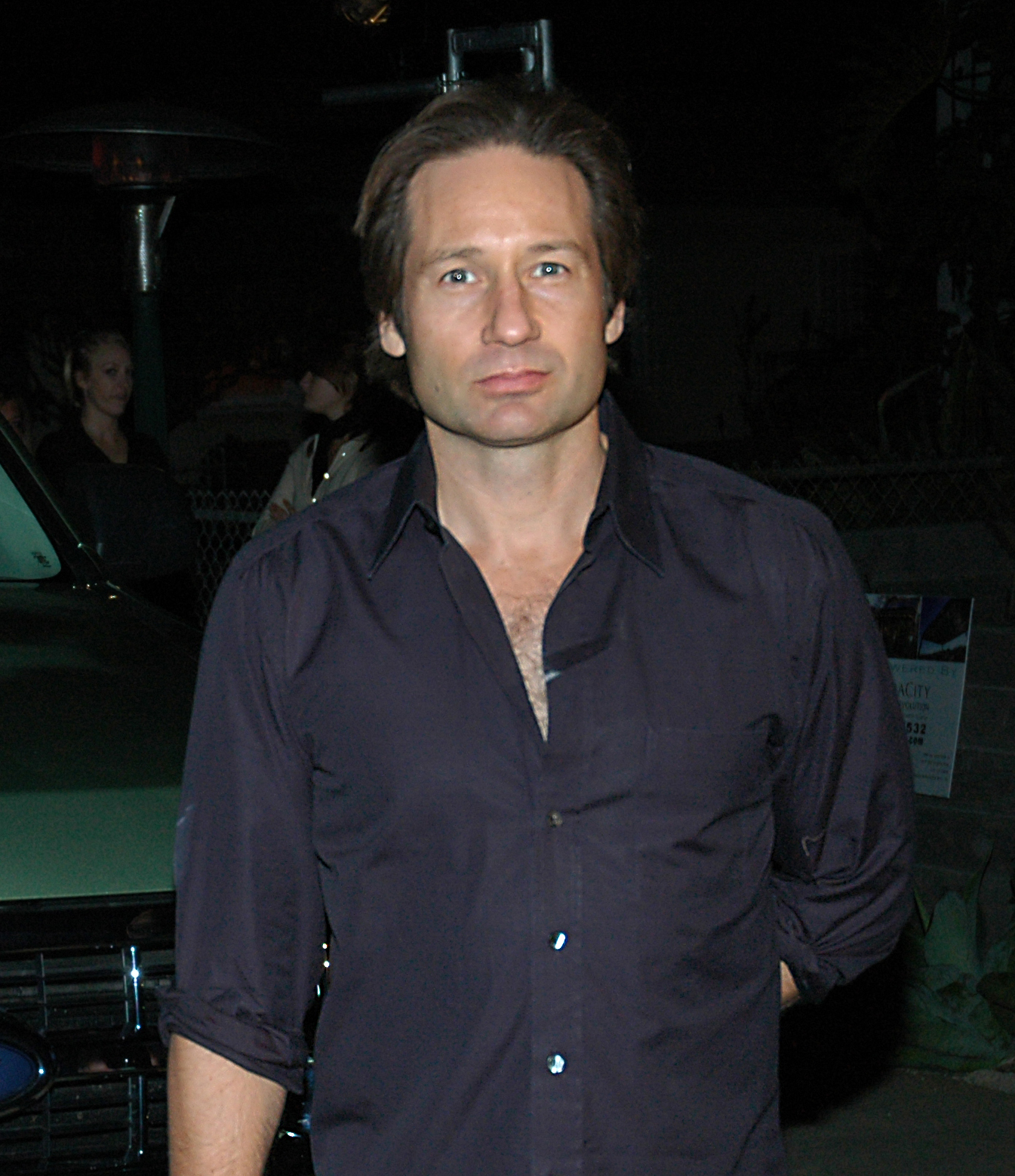 American actor David Duchovny at the Ford and project7ten Sustainable/Green Home opening party. Photo released by the Ford Motor Company.